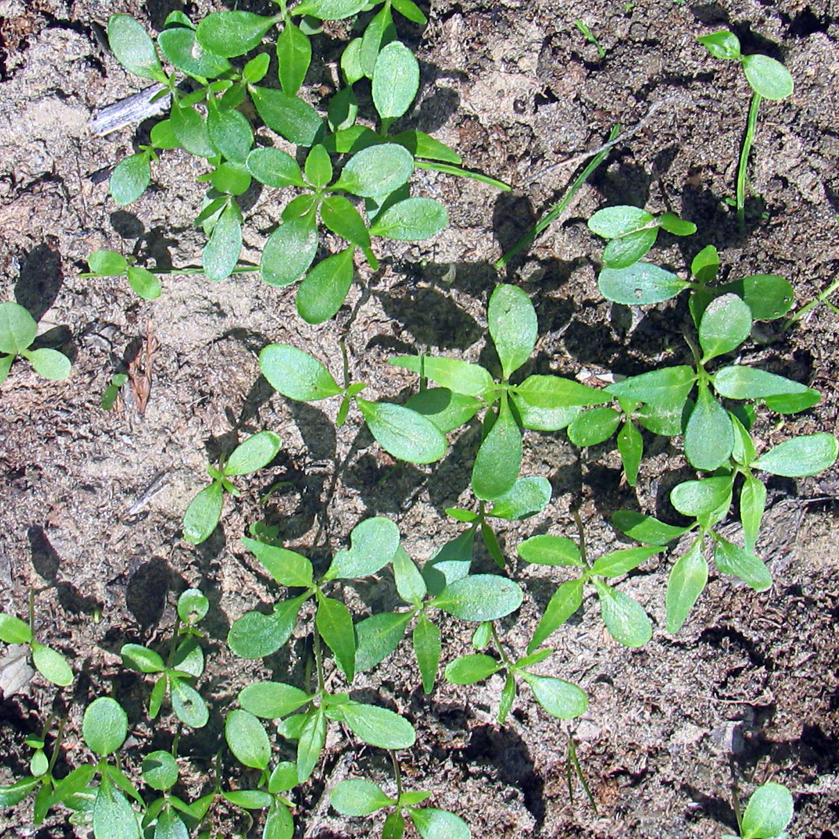 Tetradium daniellii seedlings